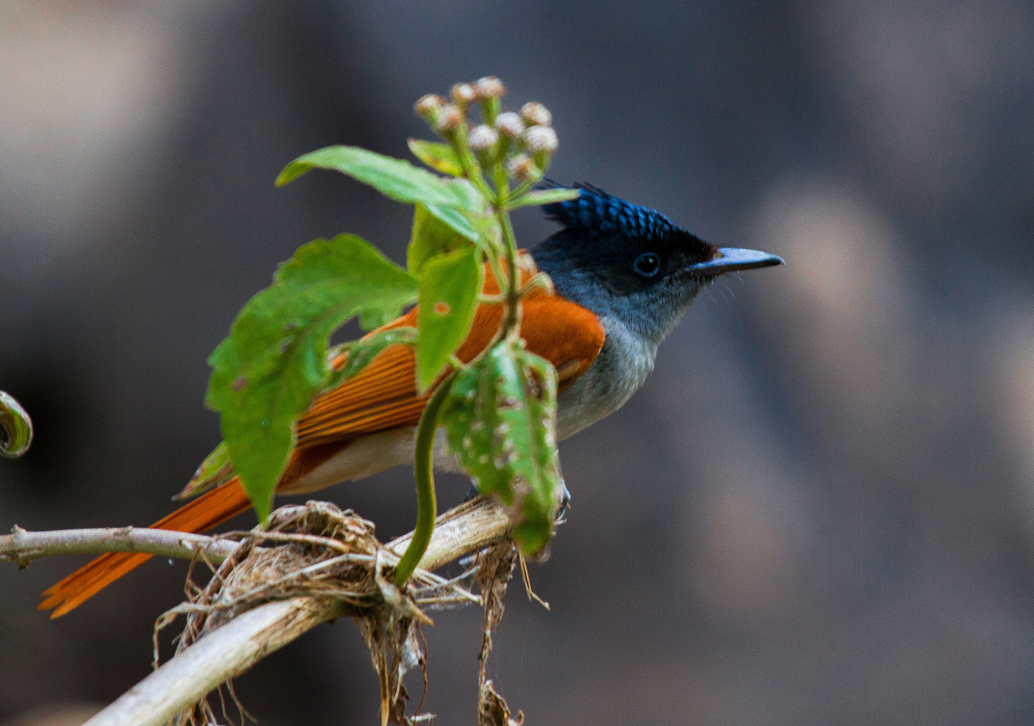 Asian Paradise Flycatcher (Terpsiphone paradisi) female.